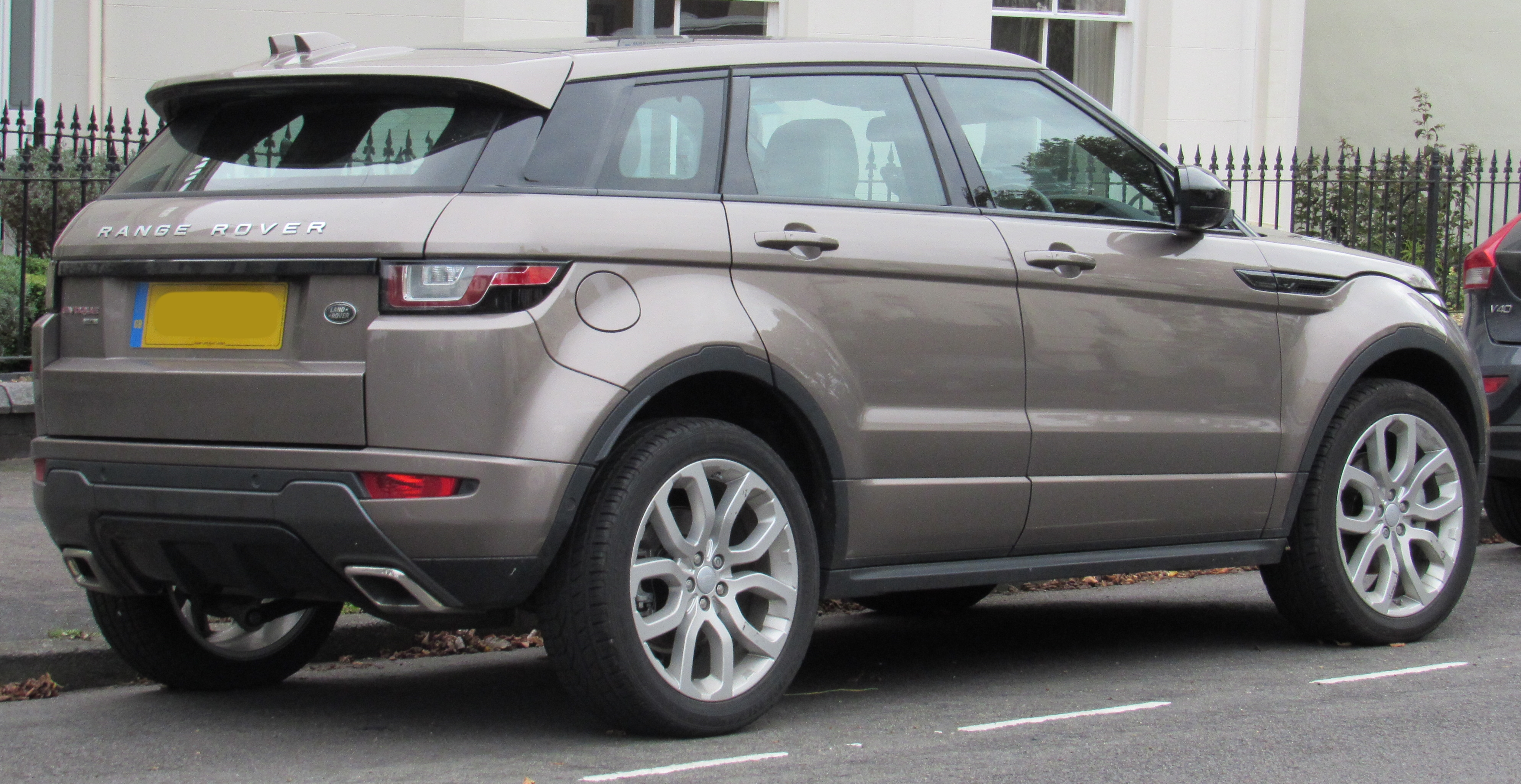 2017 Range Rover Evoque HSE 2.0 Rear Taken in Leamington Spa